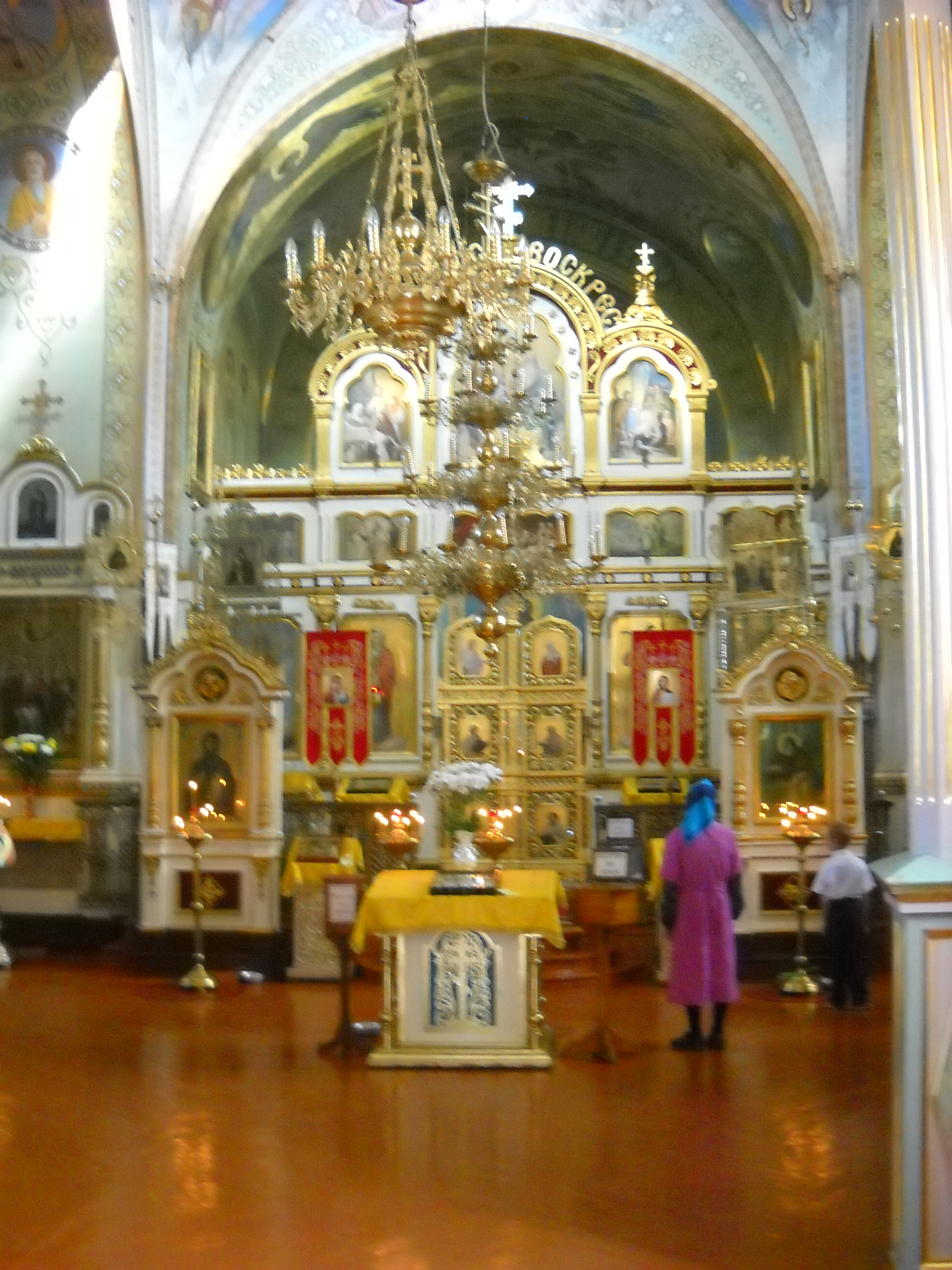 Interior of the Resurrection Orthodox Cathedral in Kovel